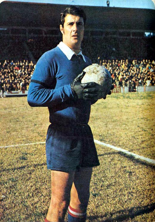 Miguel A. "Pepé" Santoro.